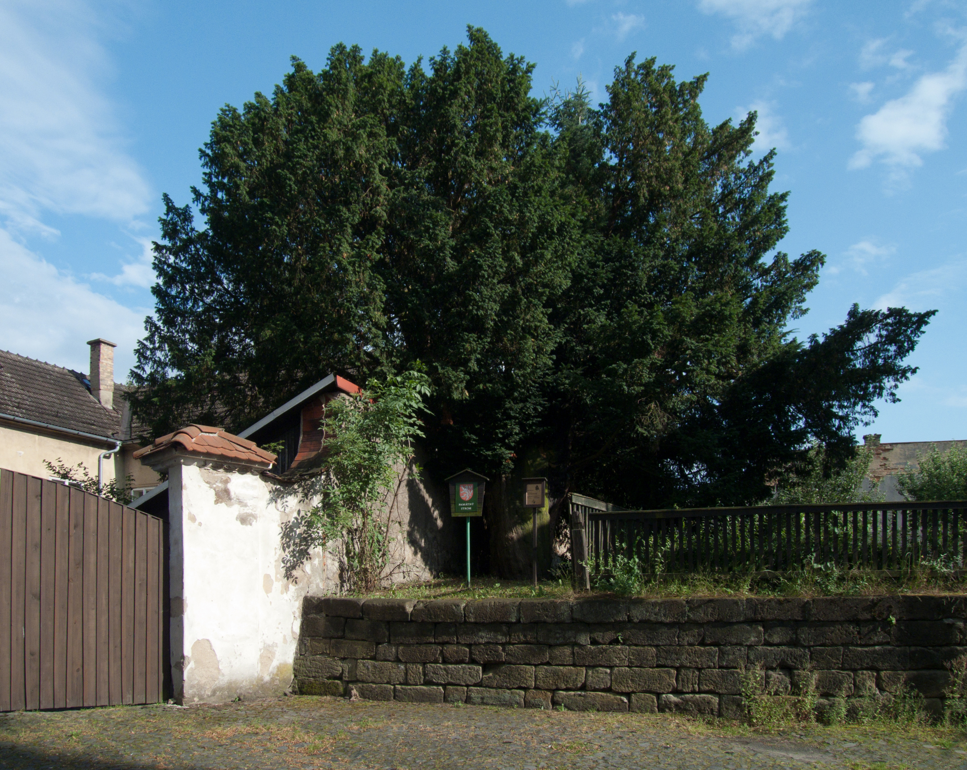 Memorial tree - Taxus baccata - in the town of Česká Kamenice, Ústí nad Labem Region, Czech Republic, 180 years old